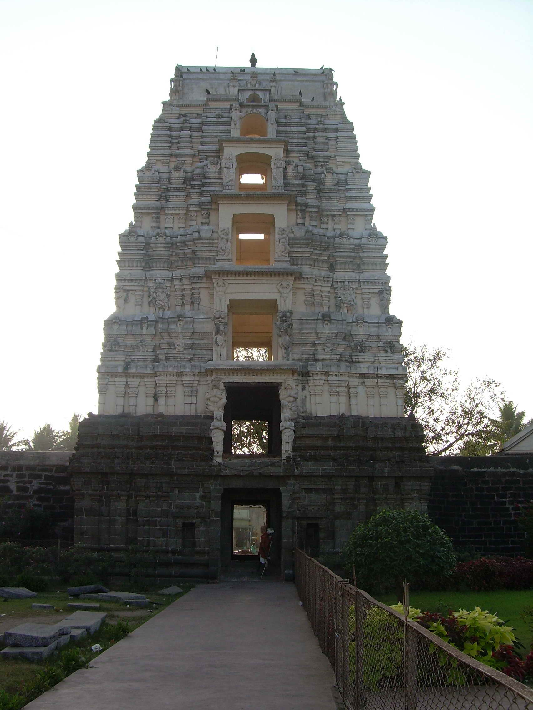 Draksharama temple - Main entrance. It is a very nice temple located in very nice place draksharama. every one of this village have blessings of Lord Sri Bhimeswara Swamy & fulfilled with happiness and money.Every one has to visit this temple and have pleasure and blessings.